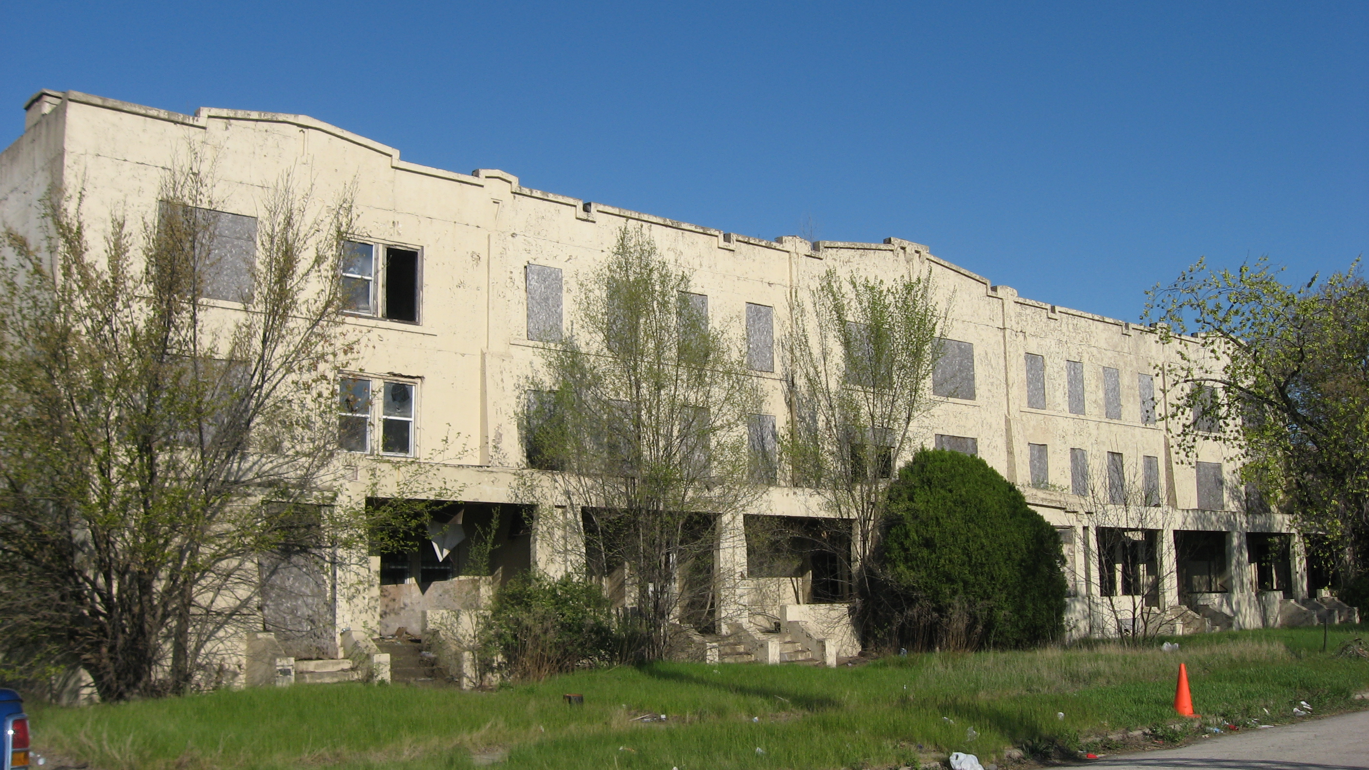 Looking northward along the houses on the western side of the 300 block of Van Buren Street in Gary, Indiana, United States. The houses pictured are part of the Van Buren Terrace Historic District, a historic district that is listed on the National Register of Historic Places.